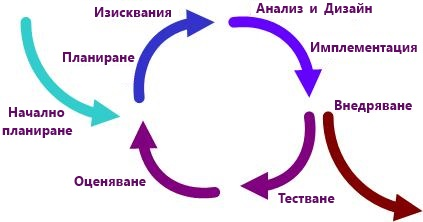 Iterative Development Model